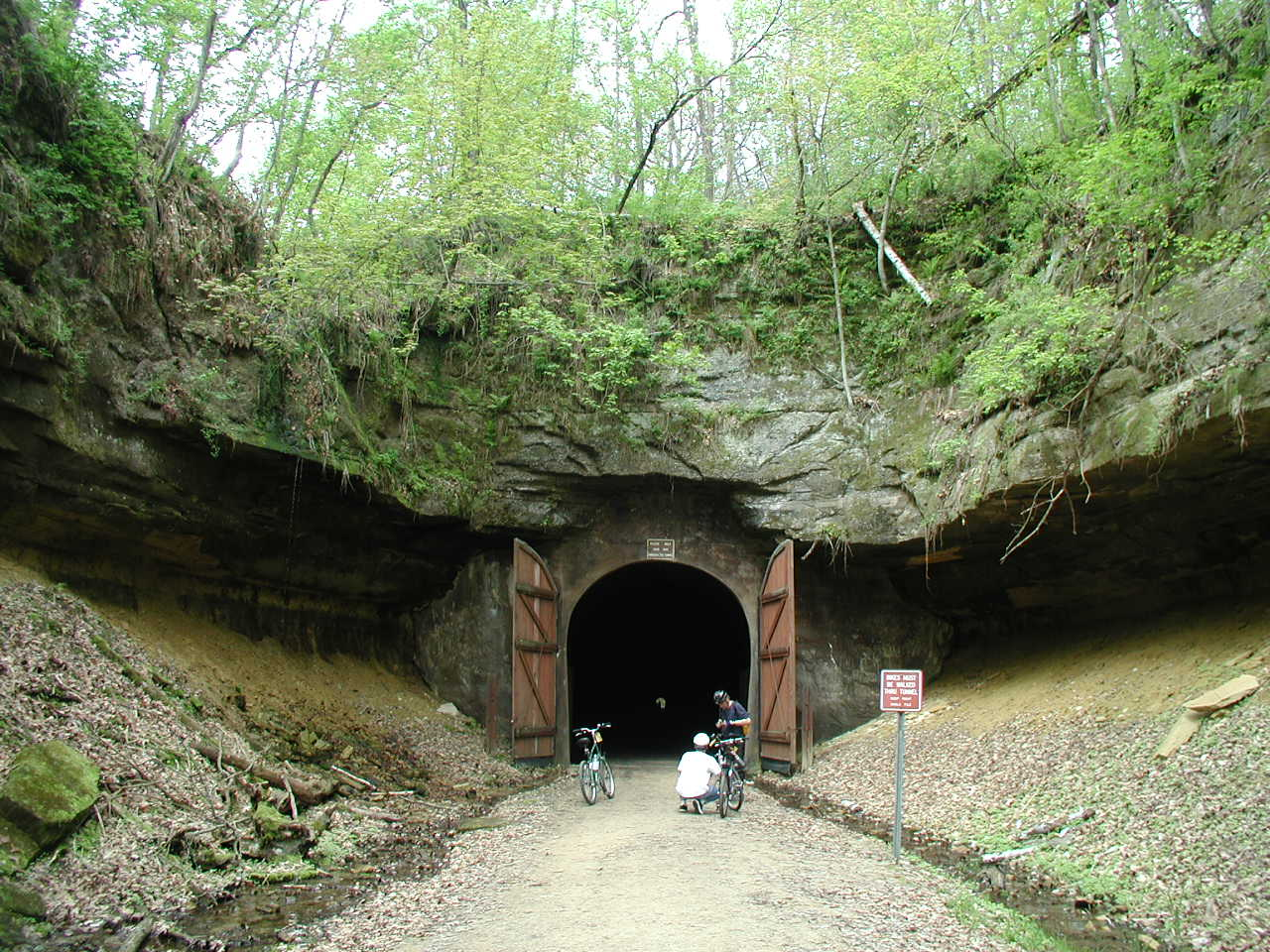 This is a personal photograph. This picture is used under the GNU Free Documentation License. Anyone may use for any purpose with attribution.